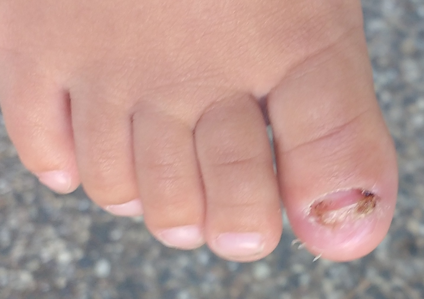 The nail bed, you can see here the underneath of the toe after removing the nail